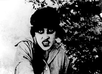 A still from the third episode of Les Vapires showing Irma Vep singing